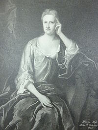 Portrait of Diana Astry, courtesy of the Orlebar familly